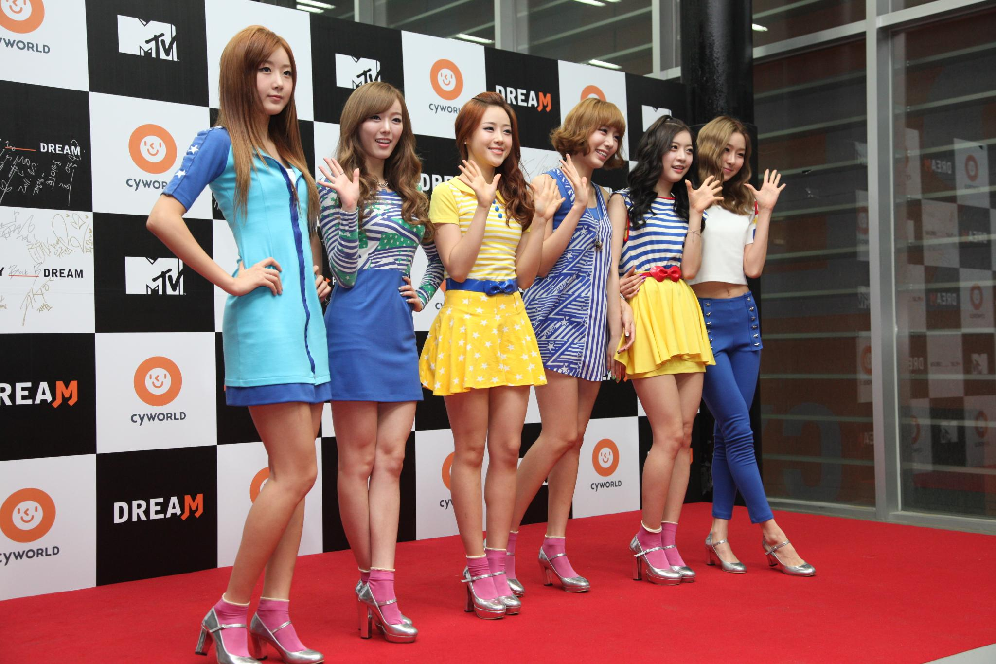 Cyworld Dream Music Festival 싸이월드 드림 뮤직 페스티벌 풍경_29